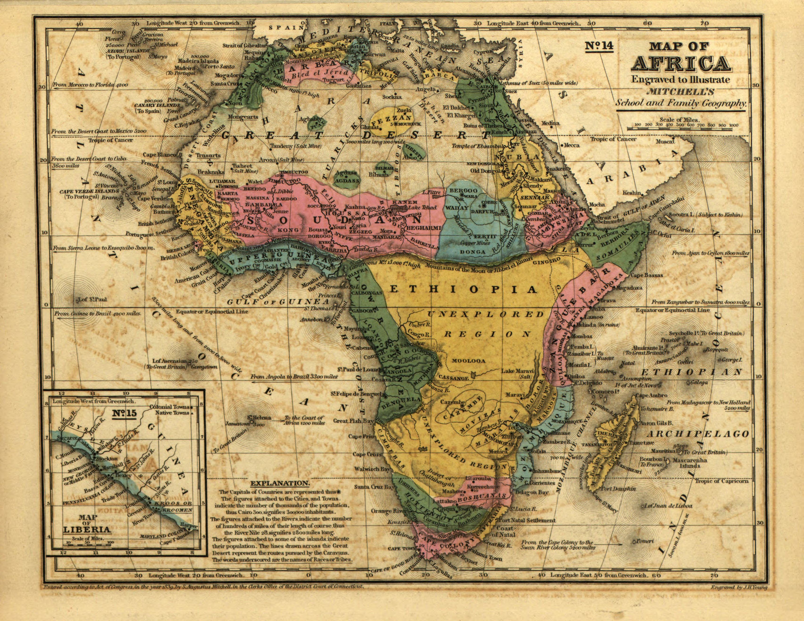 Also shows regional United States maps. Relief shown by hachures. Title and publisher information from Phillips, v. 5, p. 333, 1958. Prime meridians: Greenwich and Washington, D.C. Phillips, 6085 "Entered according to act of Congress in the year 1839 by S. Augustus Mitchell in the clerk's office of the District Court of Connecticut"--On each plate. Maps engraved by J.H. Young and W. Williams. Available also through the Library of Congress Web site as a raster image. On maps 3-18: Engraved to illustrate Mitchell's school and family atlas. Includes statistics. LC copy imperfect: Wanting cover.